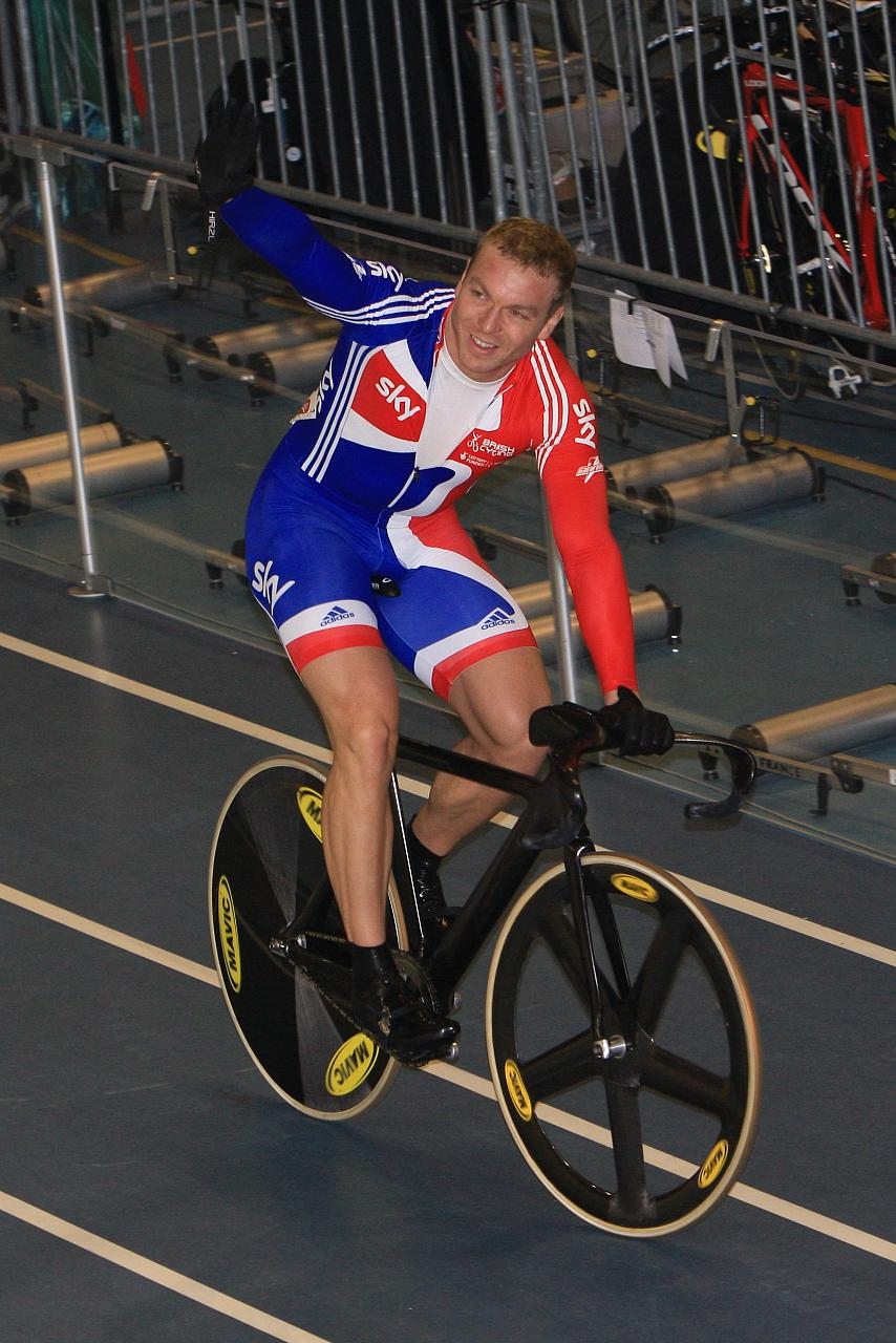 Chris Hoy after becoming Kiren World Champion